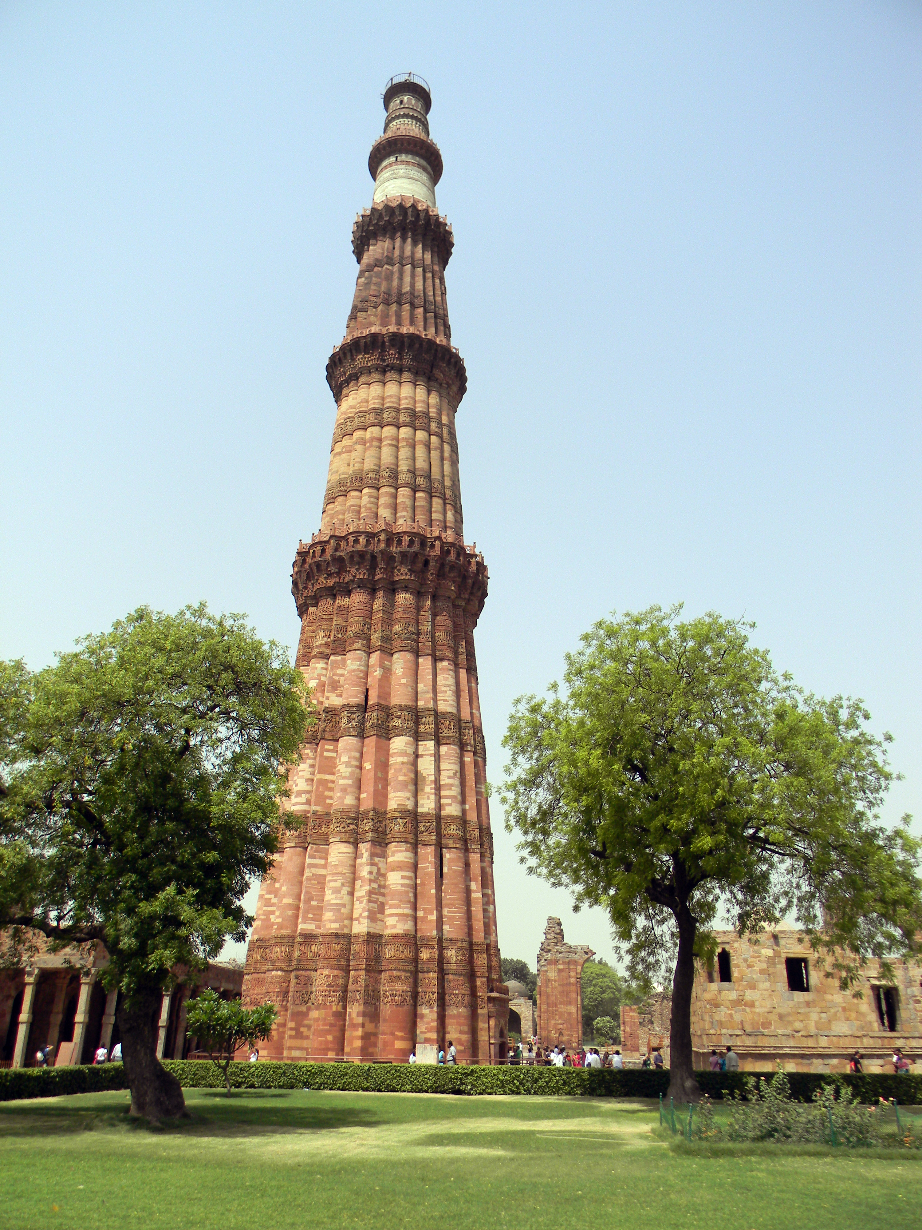 ଓଡ଼ିଆ: Qutub Minar, Delhi, India This media file is uploaded with Odia loves Wikipedia English |italiano |македонски |മലയാളം |ଓଡ଼ିଆ +/−